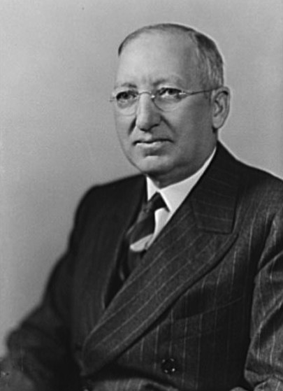 Photo of Ralph Budd. Budd was a former president of the Great Northern Railway and the president of the Chicago, Burlington and Quincy Railroad when this photo was taken in the 1940s. Budd was responsible for the creation of the Pioneer Zephyr and other "Zephyr" streamliners during his tenure with the railroad.